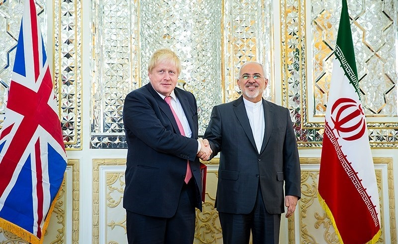 Iranian foreign minister Mohammad Javad Zarif meeting with UK foreign minister Boris Johnson in Tehran 2017-12-09 01